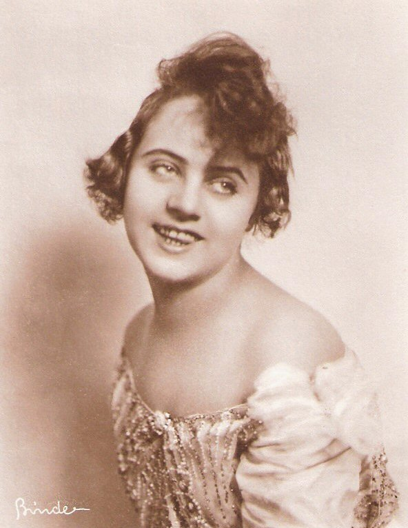 Ossi Oswalda